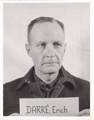 Erich Darré as a witness during the Nuremberg Trials.